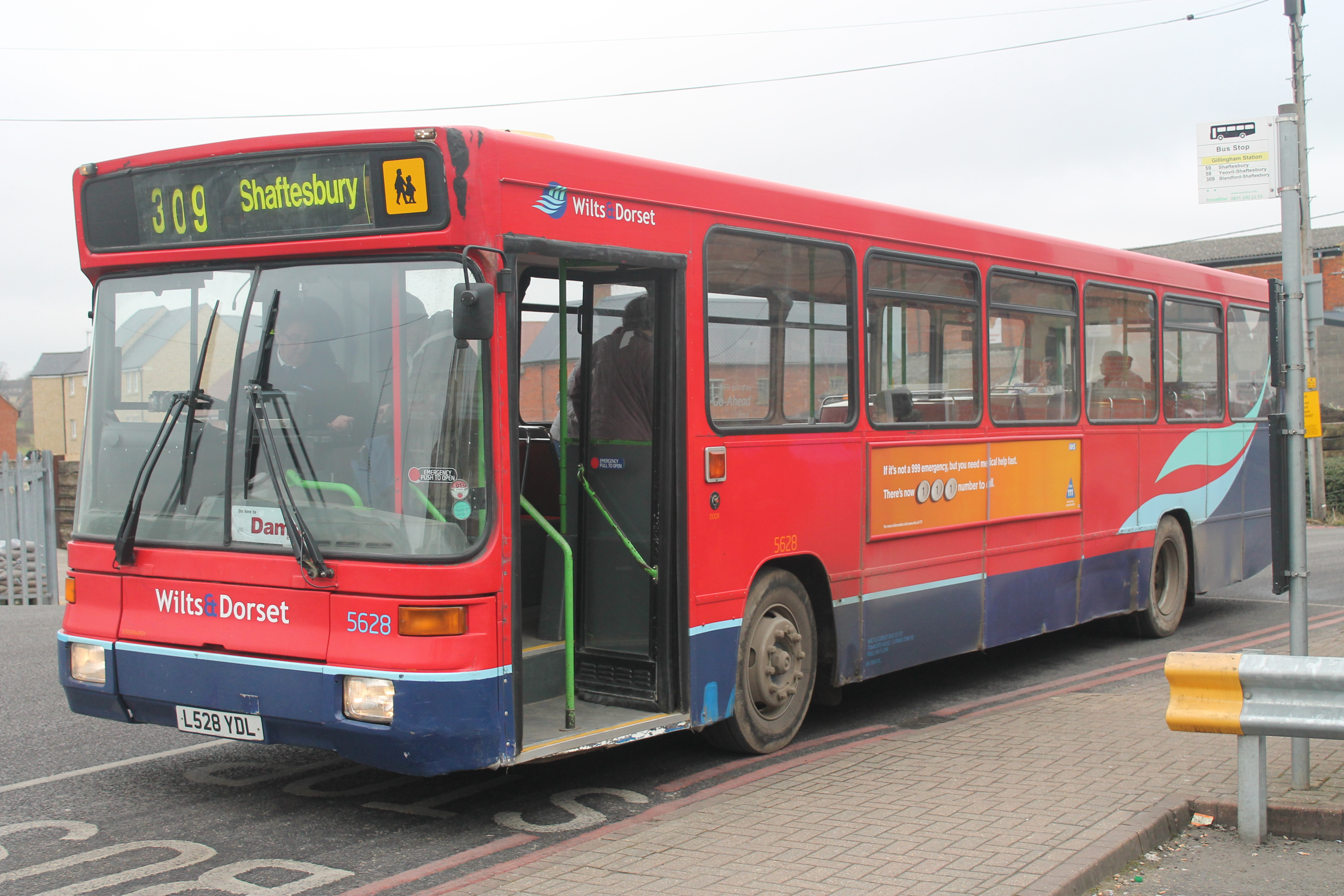 L528YDL (5628), an old bus, a Volvo B10B body with Alexander Strider bodywork is seen here in Gillingham Dorset with full Wilts & Dorset Go Ahead livery, even though it operates for Damory Coaches. There is a small sign in the windscreen confirming this to confused passengers. I haven't seen this bus on the 309 service Blandford - Shaftesbury before. I like the way it still has old roller blinds rather than the dot-matrix or LED ones which are always a pig to photograph! It's an ageing step entrance bus, formerly Solent Blue Line and Wilts & Dorset and makes a nice change to the now very common Optare Solo on the 309 route! I think this bus was new in 1994 or thereabouts.